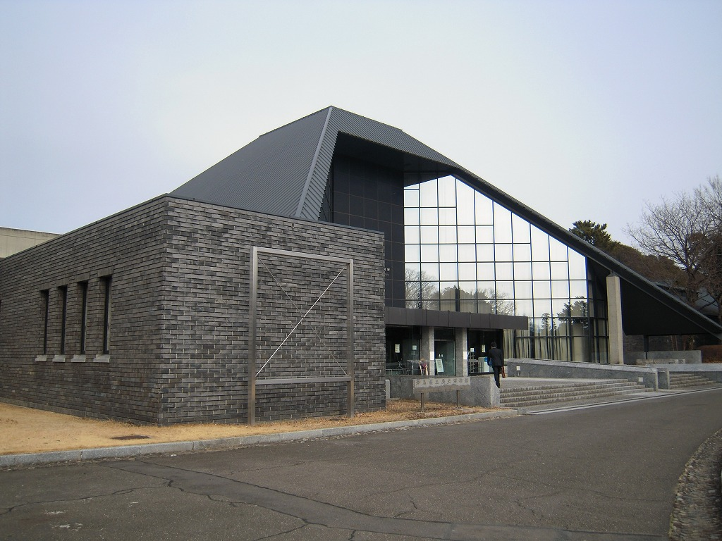 Gunma pref History museum